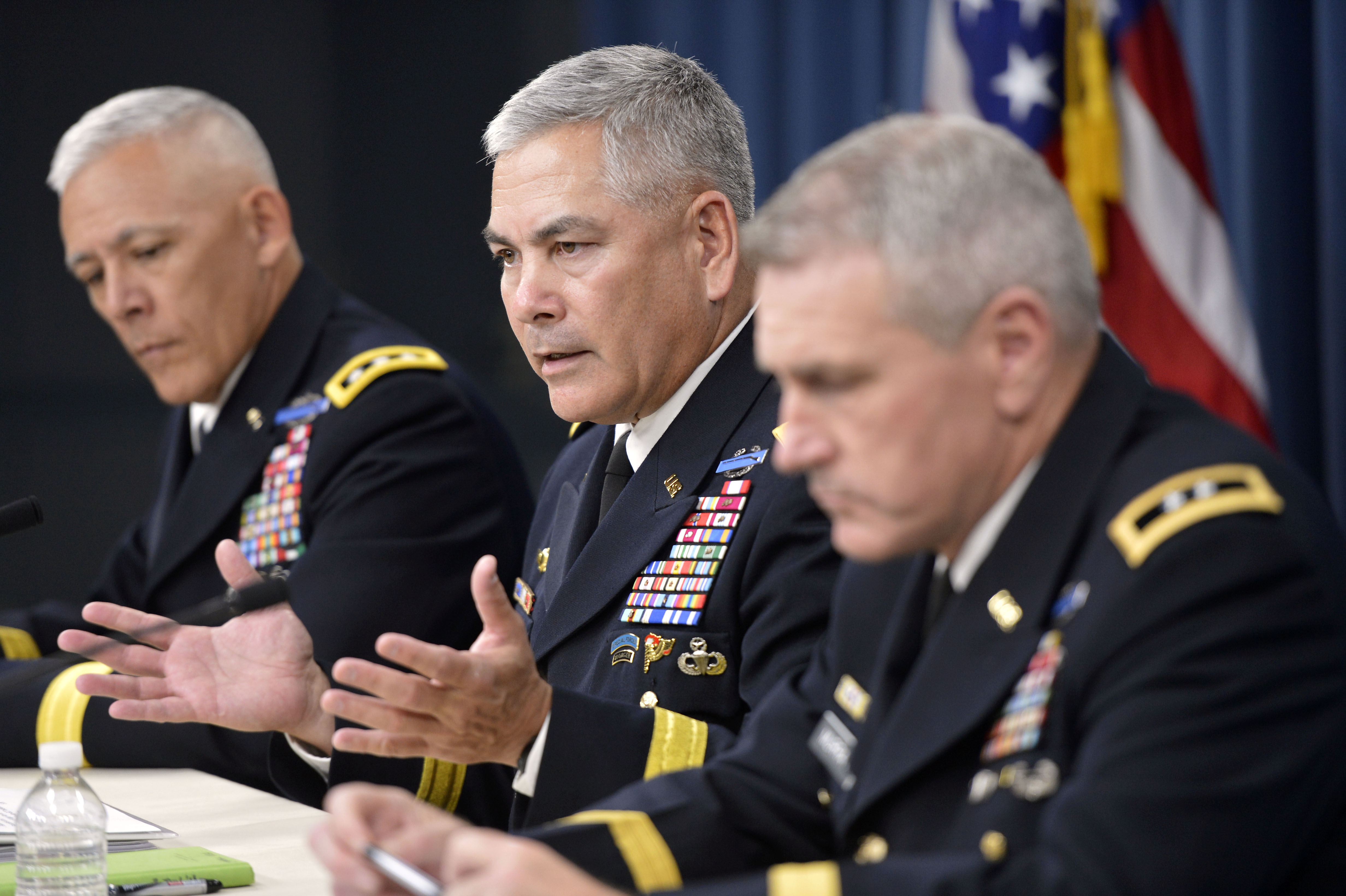 U.S. Army Gen. John F. Campbell, center, briefs the media on specific impending cuts and realignments within the Army's force structure during a press conference in the Pentagon in Arlington, Va., on June 25, 2013. Chief of Staff of the Army General Ray Odierno earlier announced that the Army will reduce its number of brigade combat teams from 45 to 33 and shrink its active component end strength by 14 percent, or 80,000 soldiers, to 490,000, from a wartime high of 570,000. Lt. Gen. James L. Huggins, left, and Maj. Gen. John M. Murray joined Campbell, right, at the follow-up briefing after Odierno.